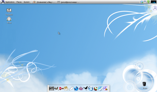 eeebuntu 3.0 desktop